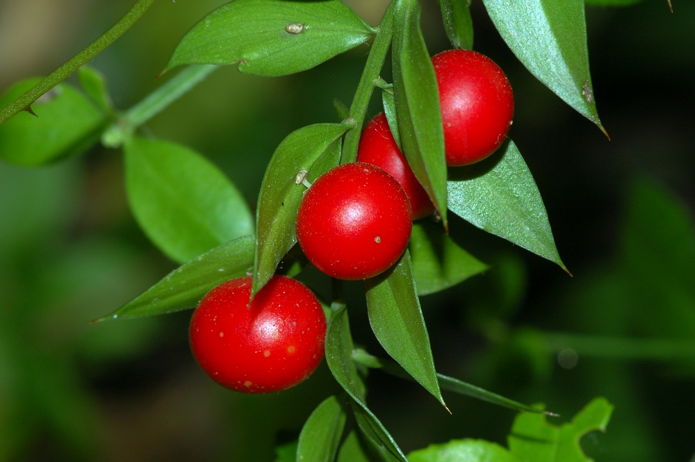 Ruscus aculeatus, Bedarieux Orb, Languedoc-Roussillon, France